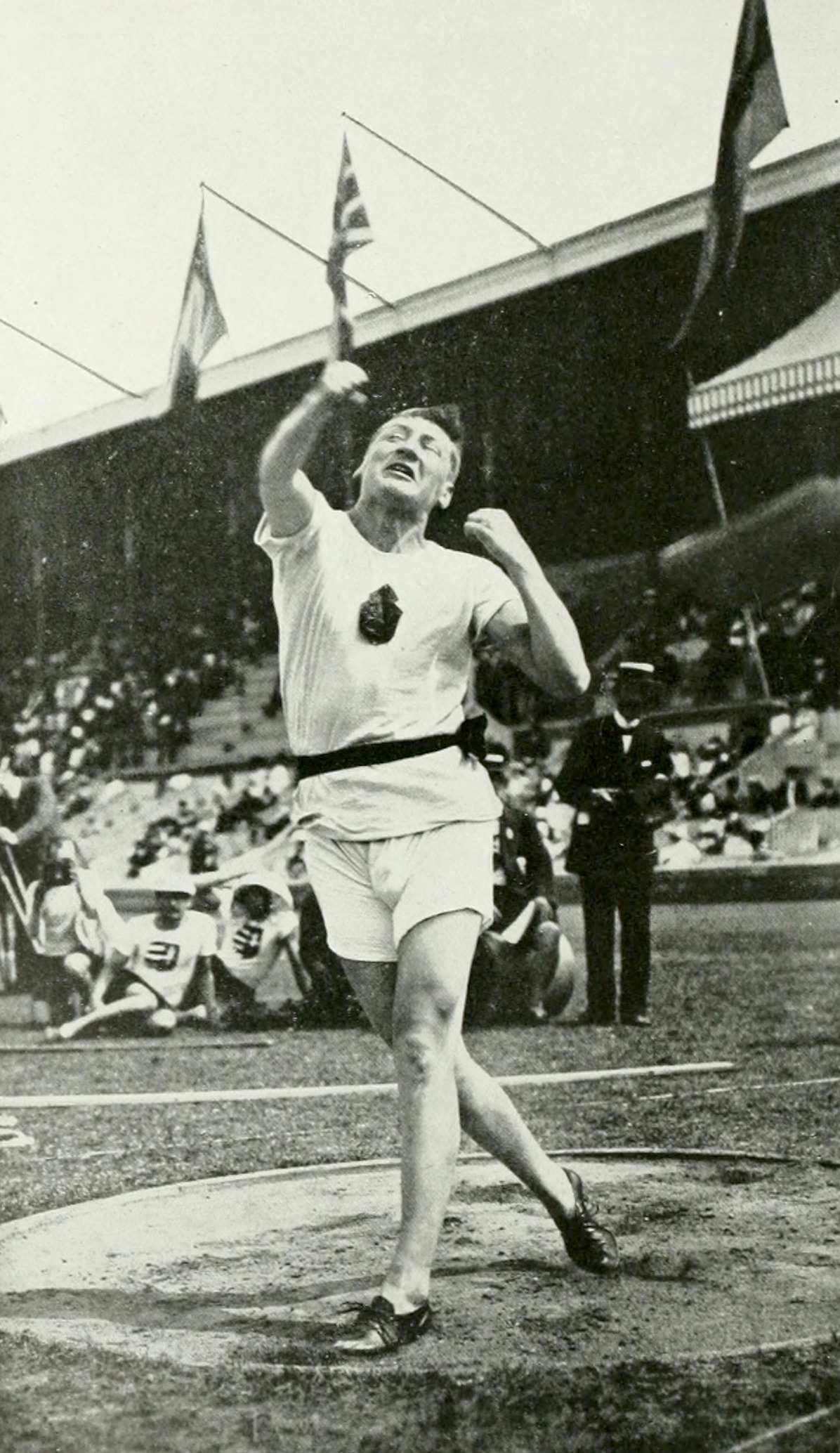 Armas Taipale during the discus throw competition at the 1912 Summer Olympics